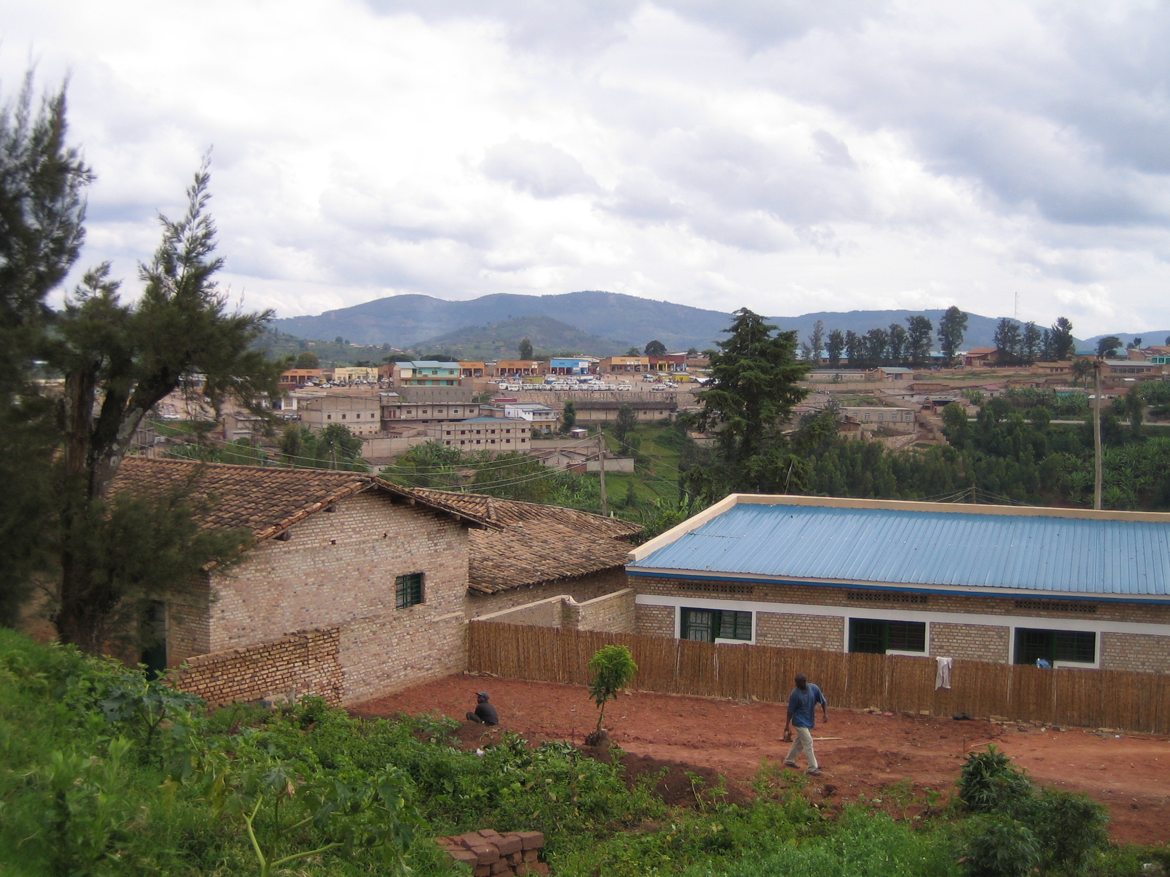 The city centre of Gitarama, Rwanda